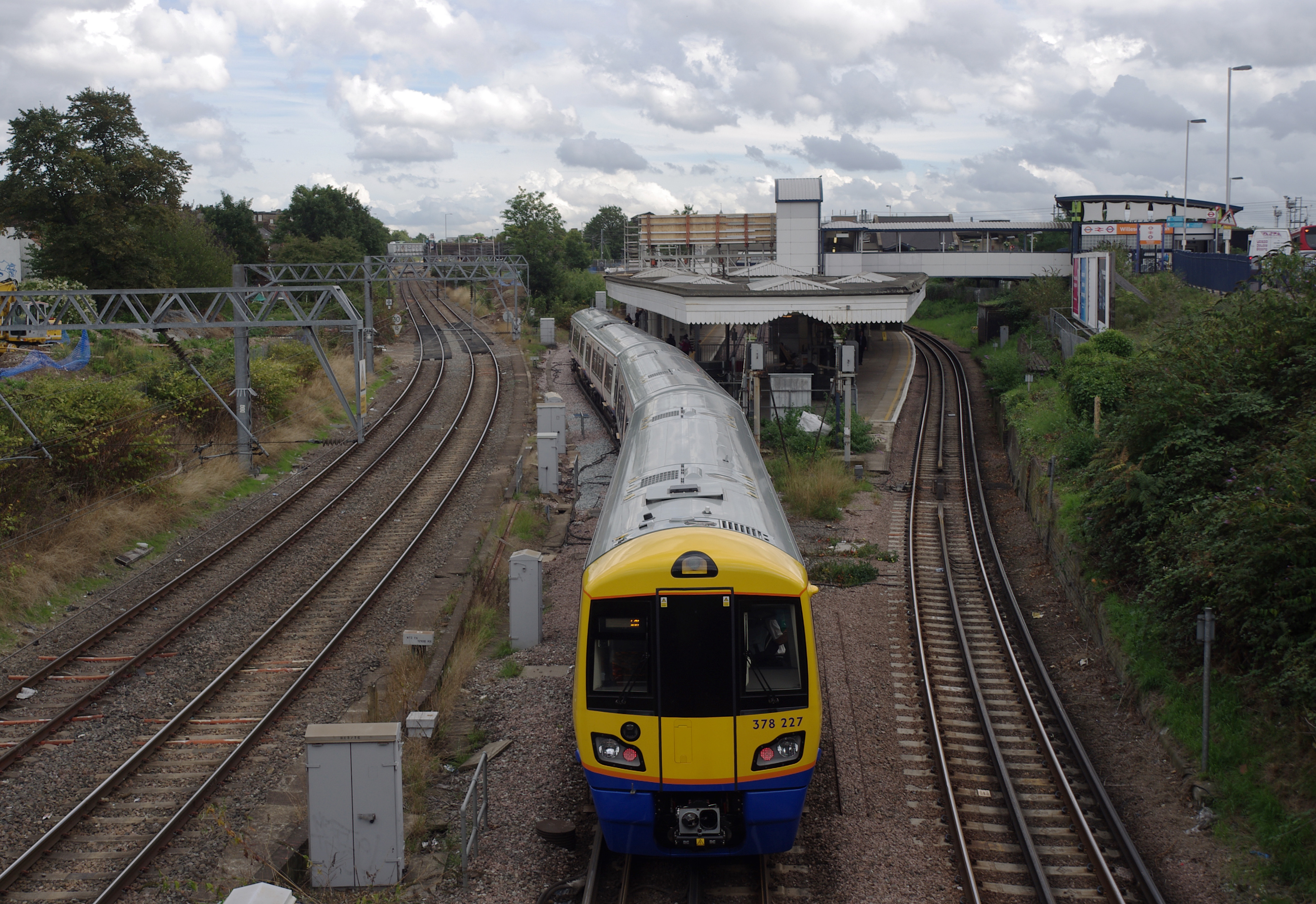 London Overground Capitalstar EMU 378227 arrives at Willesden Junction with a service from Watford Junction to London Euston.